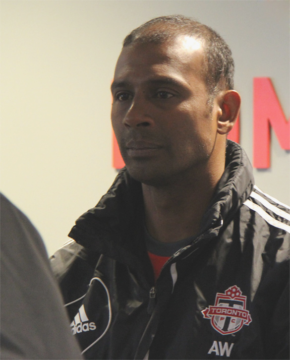 Aron Winter after today's morning practice.This photo was used in the following places